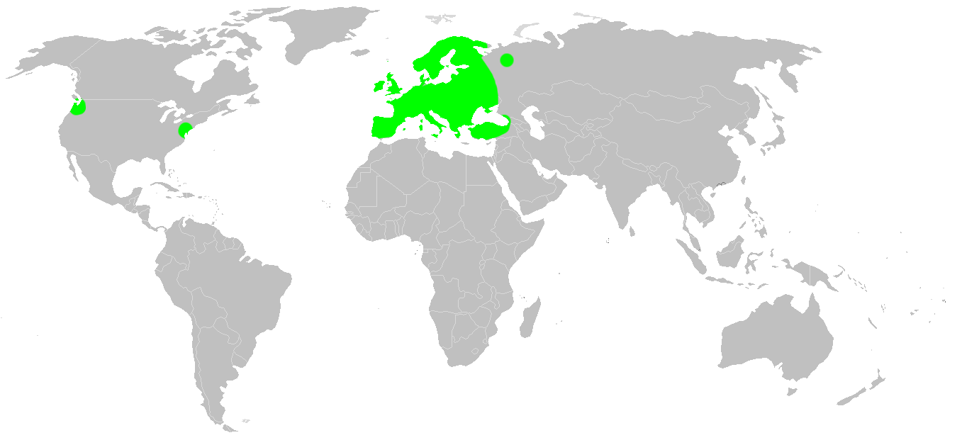 Known world distribution of Tegenaria atrica (Agelenidae). Data from British Arachnological Society, 2006